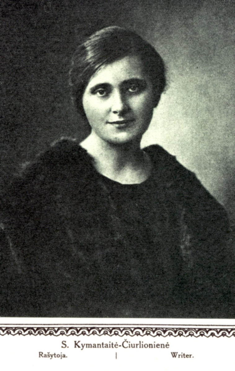 Sofija Kymantaitė-Čiurlionienė, Lithuanian writer